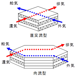 Fixed type total heat exchanger